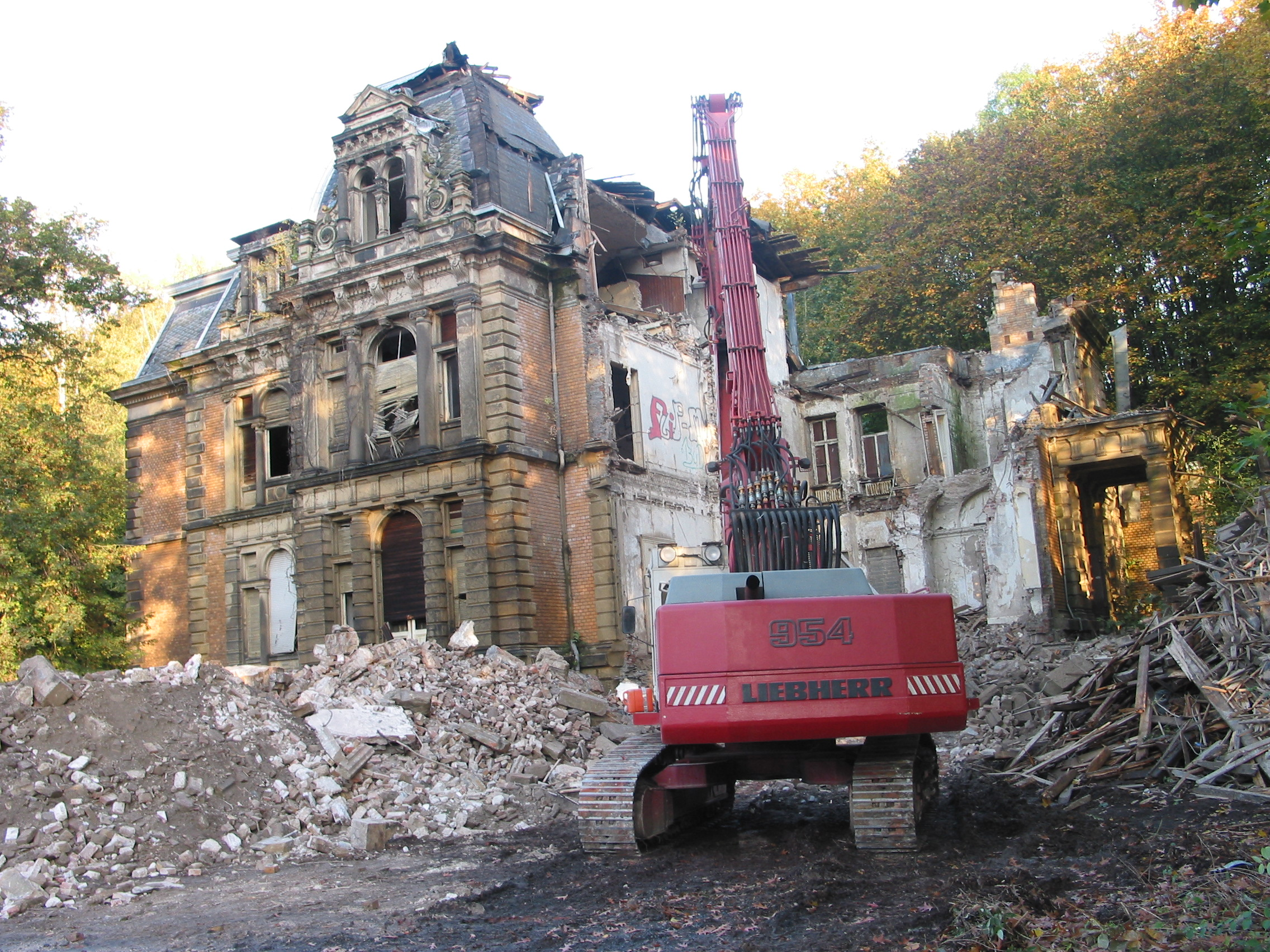 Demolition of Villa Neizert, Neuwied, Rasselstein